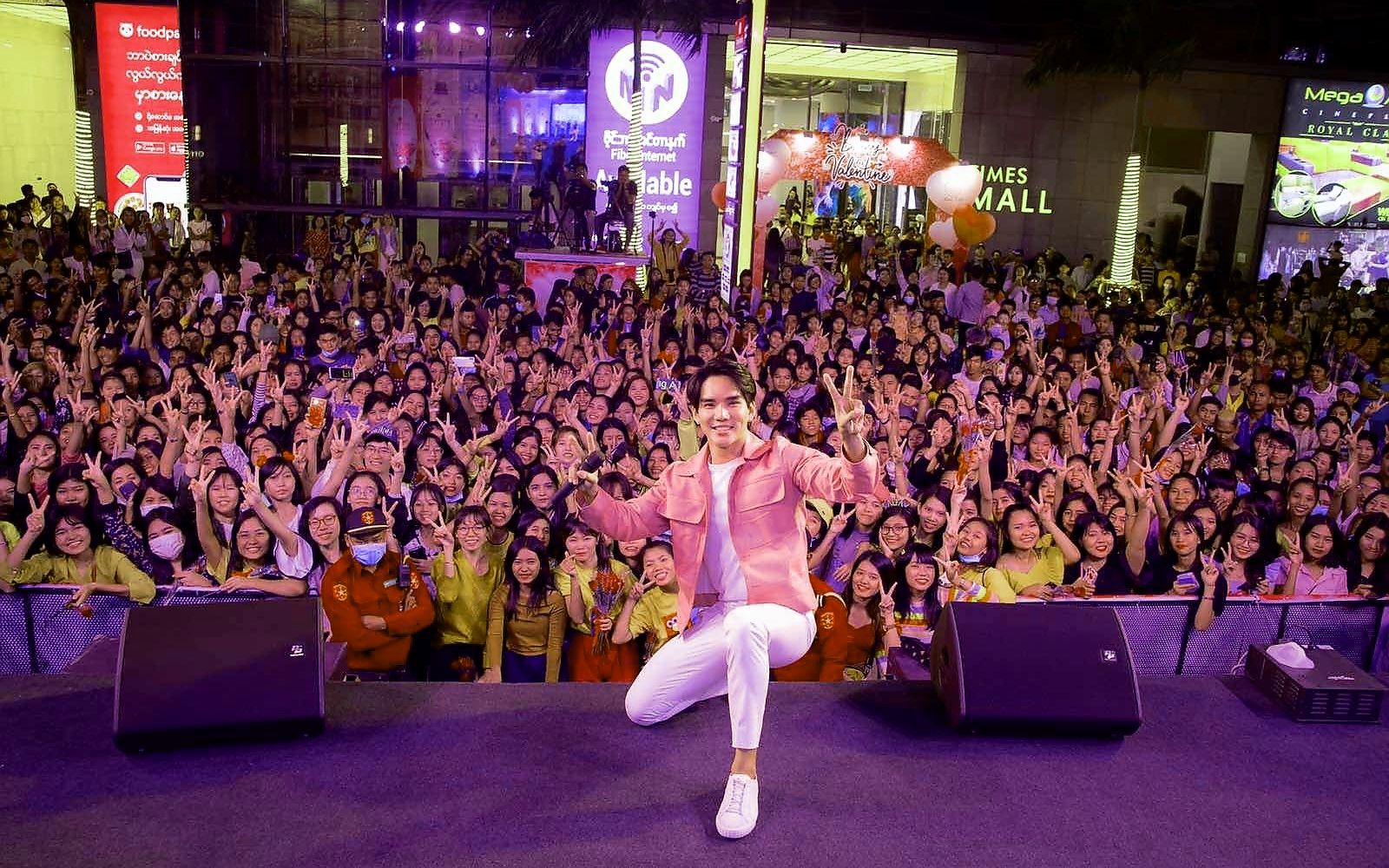 A Linn Yaung is a Burmese singer and actor.